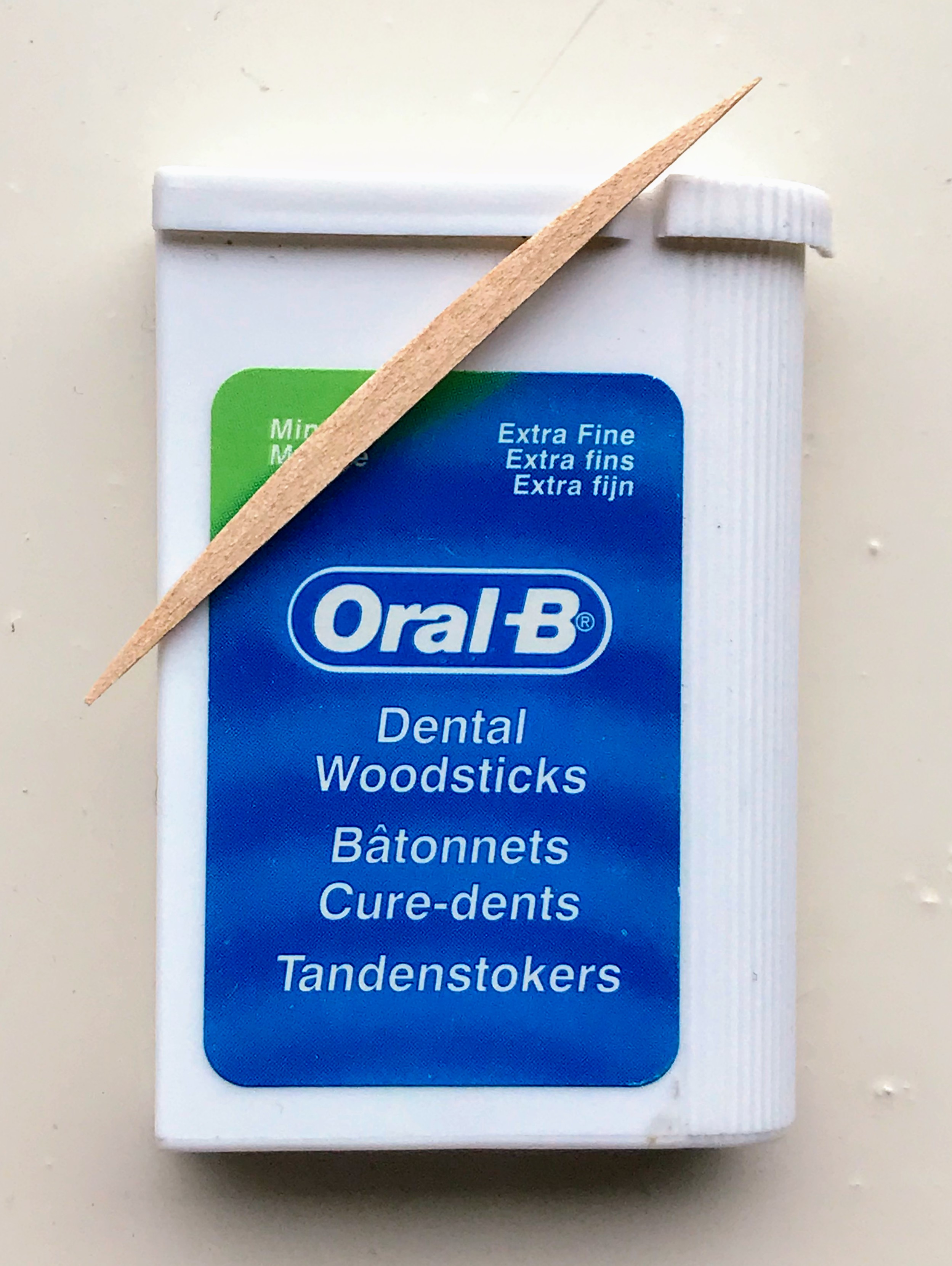 Oral B toothpicks dental woodsticks